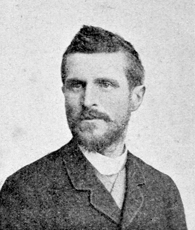 Photographic portrait of Joseph Aubert by César.